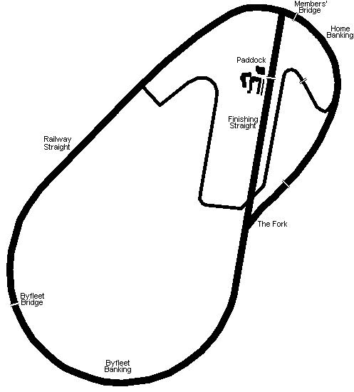 A diagram of Brooklands racing circuit prior to the Second World War. (The course ran anti-clockwise)